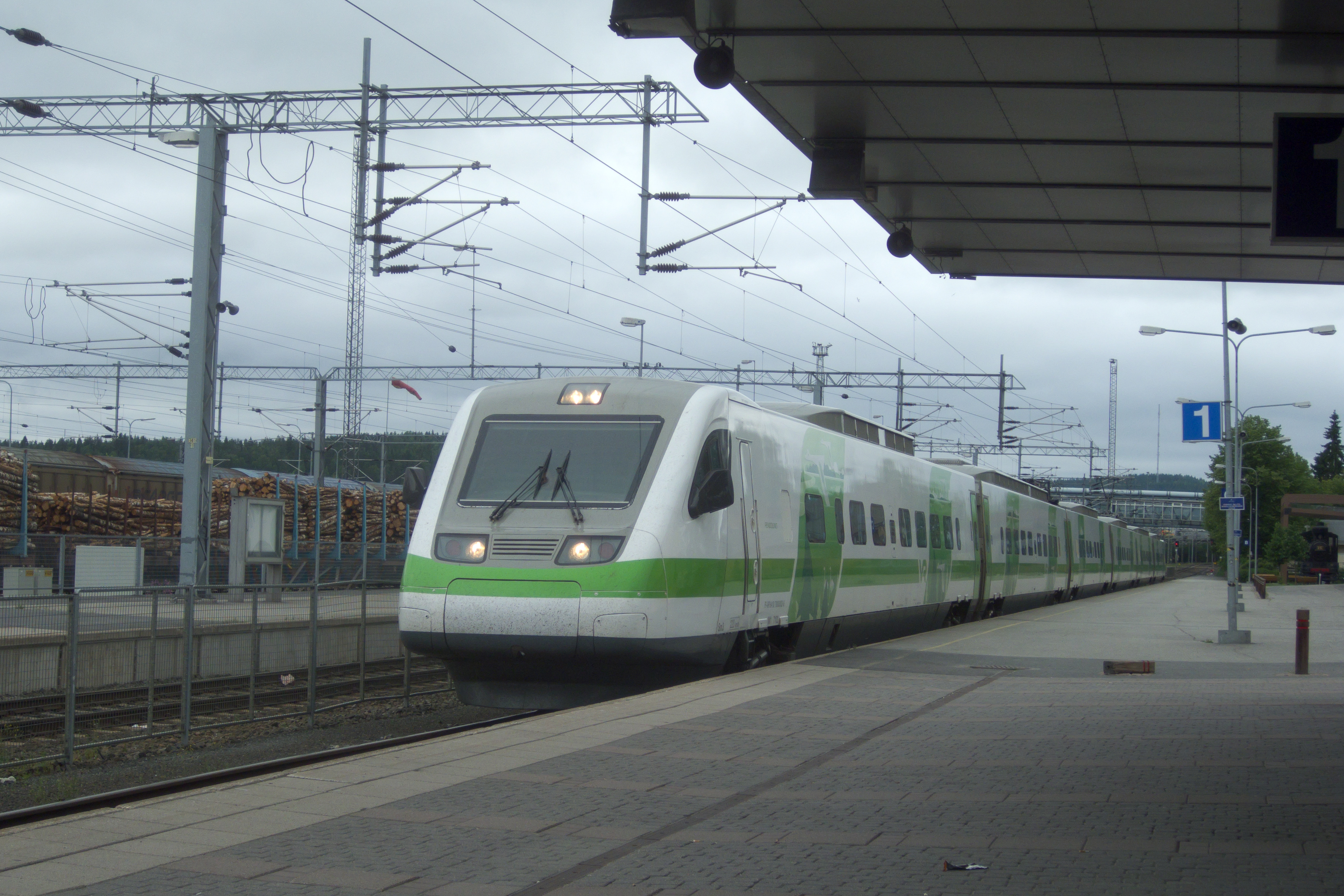 A green VR Class Sm3 arrives at Jyväskylä, Finland